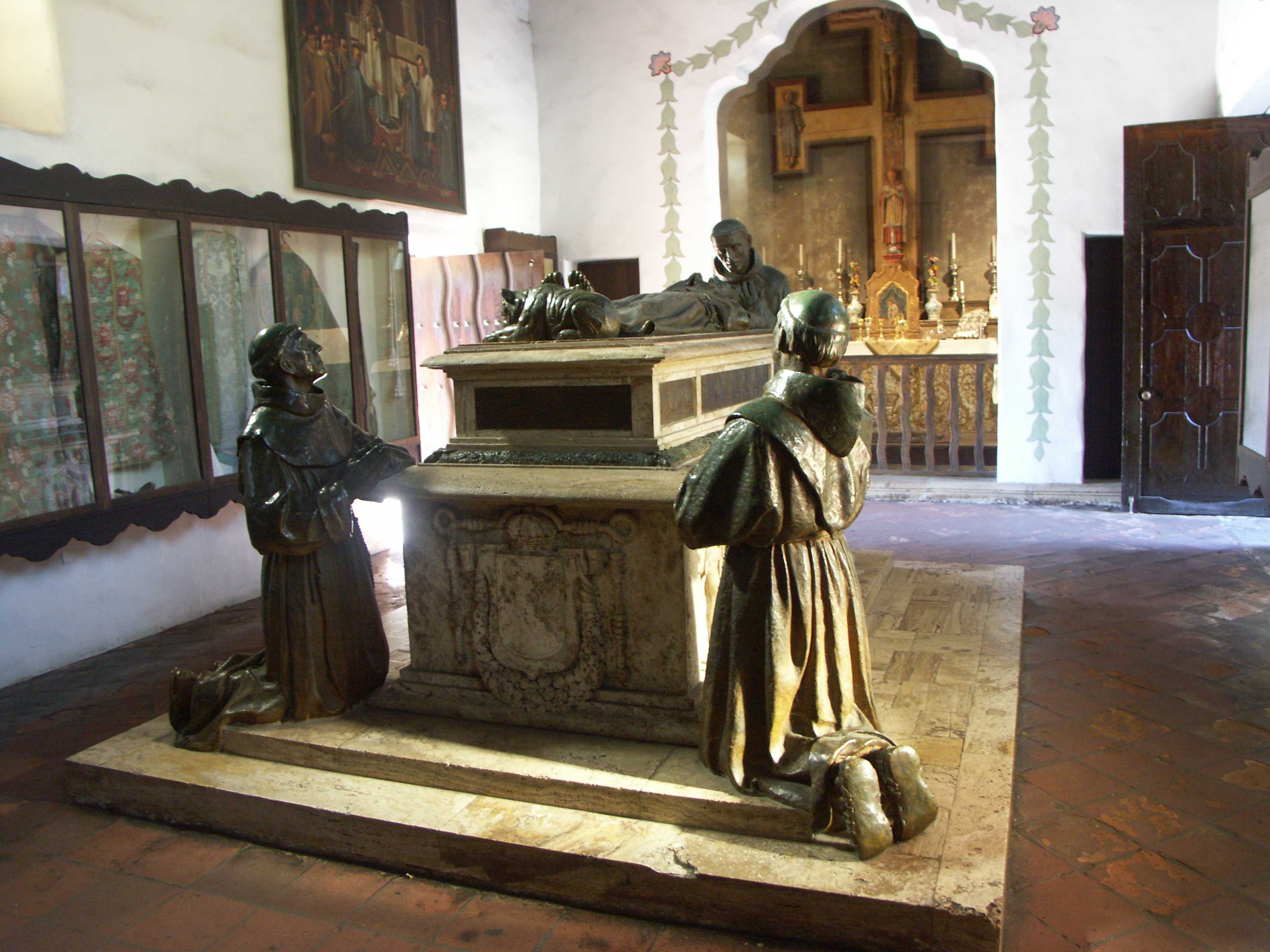 Father Serra cenotaph - Mission San Carlos Borromeo - Carmel - California The centaph consists of an empty sarcophagus carved from locally quarried travertine marble with bas-relief panels. A life-size bronze sculpture of Serra lies atop the monument, his bare feet resting on a grizzly bear. Three addtional life-size bronze sculptures by Mora adorn it: Fr. Juan Crespí, who predeceased Serra, stands at the head, praying over him, as if to welcome him into Heaven. Kneeling at Serra's feet are Fr. Fermin Lasuen, who succeeded Serra as the president of the missions of Baja and Alta California; and Fr. Julian Lopez, a friar at the Carmel Mission ([1]).